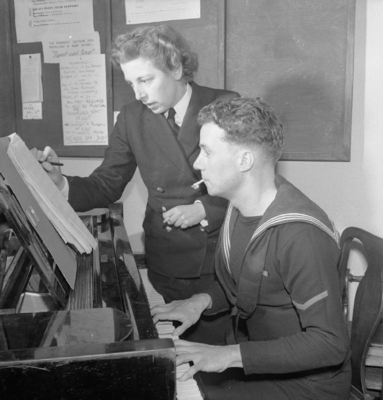 Wrens Prepare For Civilian Life Alongside the various educational and vocational courses on offer to service personnel, a number of classes in the arts were also available. Here an able seaman and WREN Petty Officer compose music for the show 'Sweet and Sour' at the 'Three Arts Club' of a southern naval port.